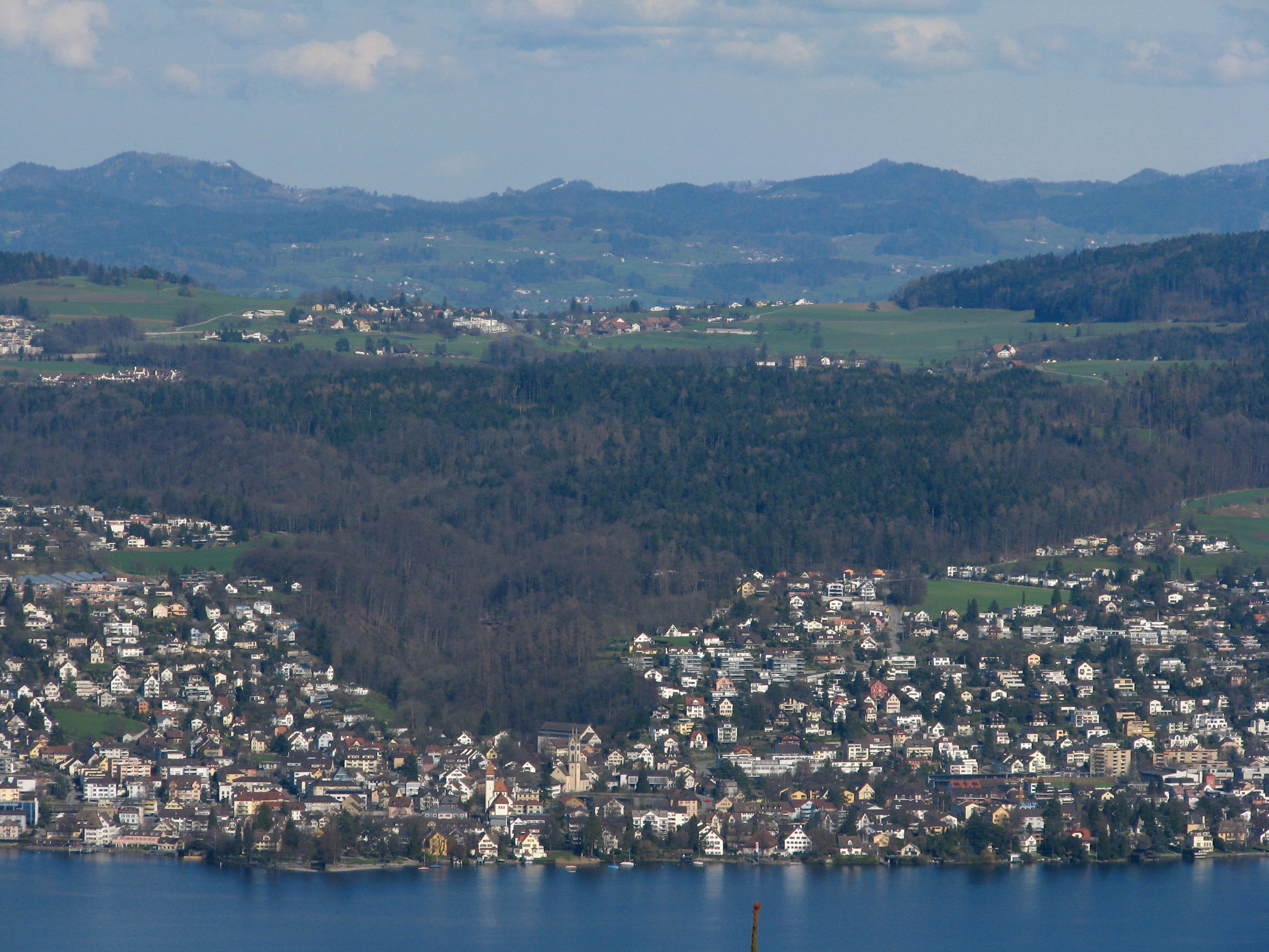 Küsnacht (ZH), so-called Küsnachter Tobel and Forch , as seen from Felsenegg.